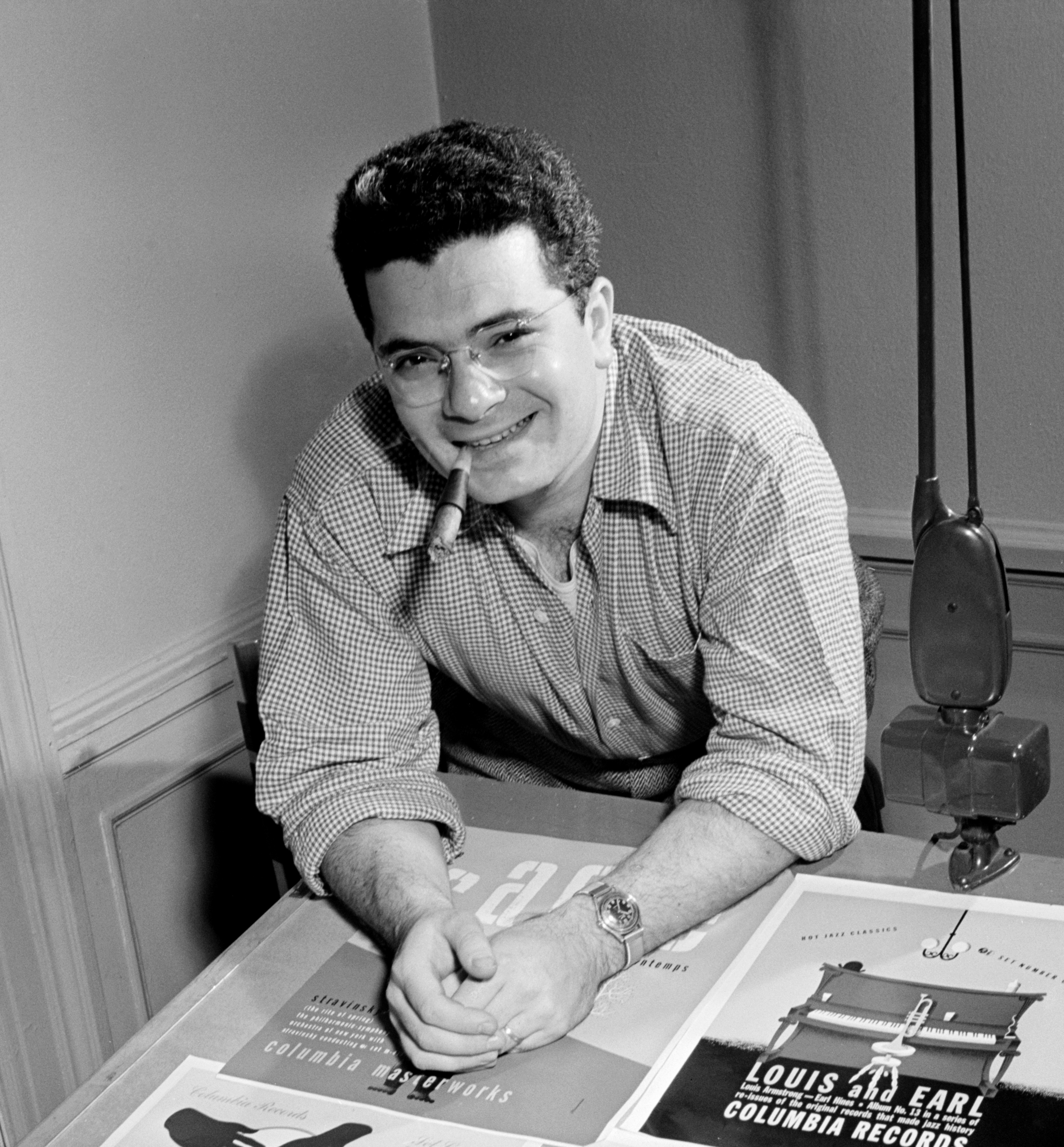 Gottlieb, William P., 1917-, photographer. Alex Steinweiss, New York, N.Y.(?), ca. Apr. 1947; 1 negative : b&w ; 2 1/4 x 2 1/4 in. Notes Gottlieb Collection Assignment No. 475 Reference print available in Music Division, Library of Congress. Purchase William P. Gottlieb Forms part of William P. Gottlieb Collection (Library of Congress). Subjects Steinweiss, Alex Artists--1940-1950. Sound recording executives and producers--1940-1950. Format: Portrait photographs--1940-1950. Film negatives--1940-1950. Rights Info Mr. Gottlieb has dedicated these works to the public domain, but rights of privacy and publicity may apply. gottlieb-copyright.html Repository (negative) Library of Congress, Prints & Photographs Division, Washington D.C. 20540 USA, (reference print) Library of Congress, Music Division, Washington D.C. 20540 USA, Part of William P. Gottlieb Collection (DLC) 99-401005 General information about the Gottlieb Collection is available at Persistent URL Call Number LC-GLB23- 0813